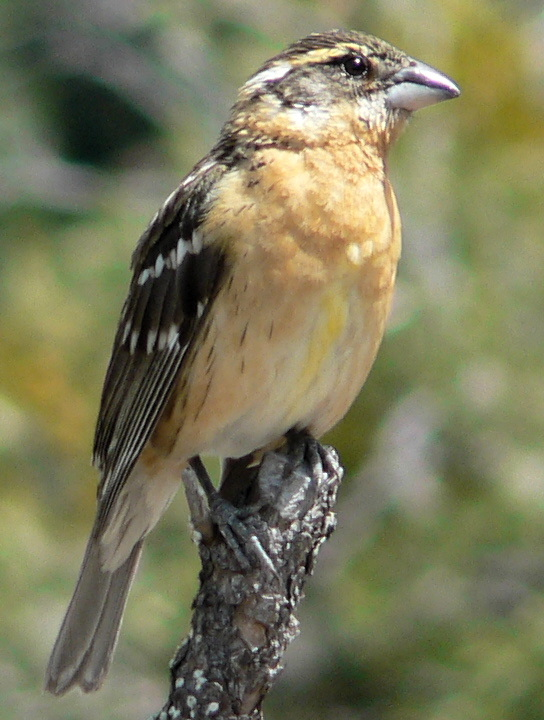 Black-headed Grosbeak adult female